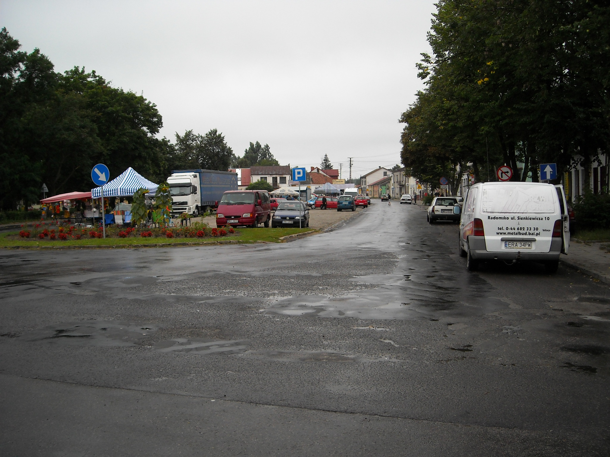 Raków, Poland. Plac Wolności (Liberty Square), former marketplace (Rynek)